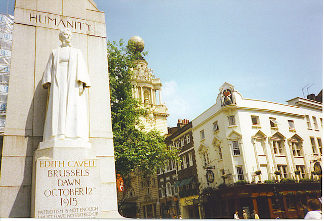 Edith Cavell Statue English nurse, famed for helping Allied soldiers escape into the Netherlands in 1914-15. She was caught and shot by the Germans. Behind is the tower of the National Opera House in St Martin's Lane.